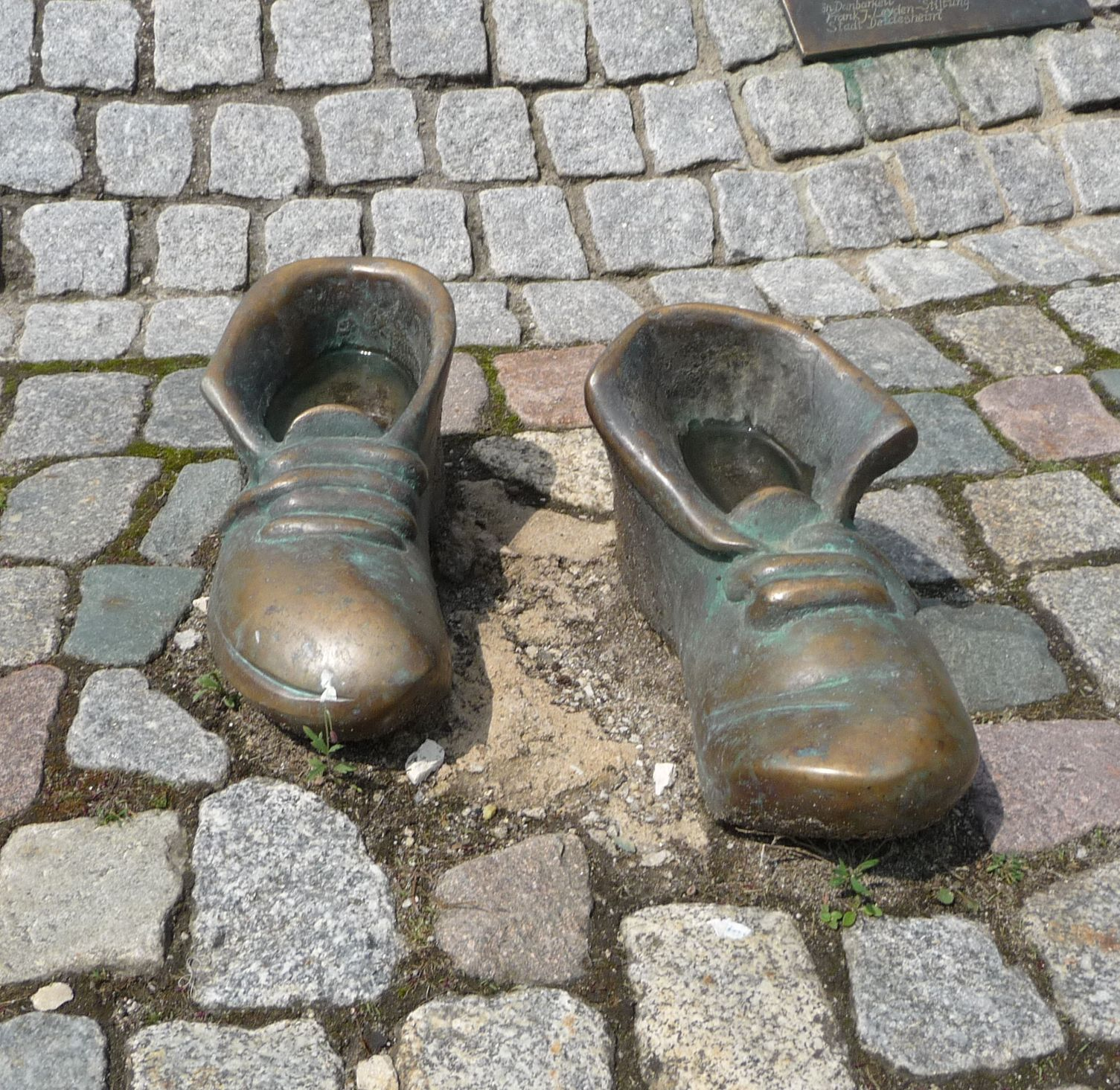 Brauchtumsbrunnen Deidesheim